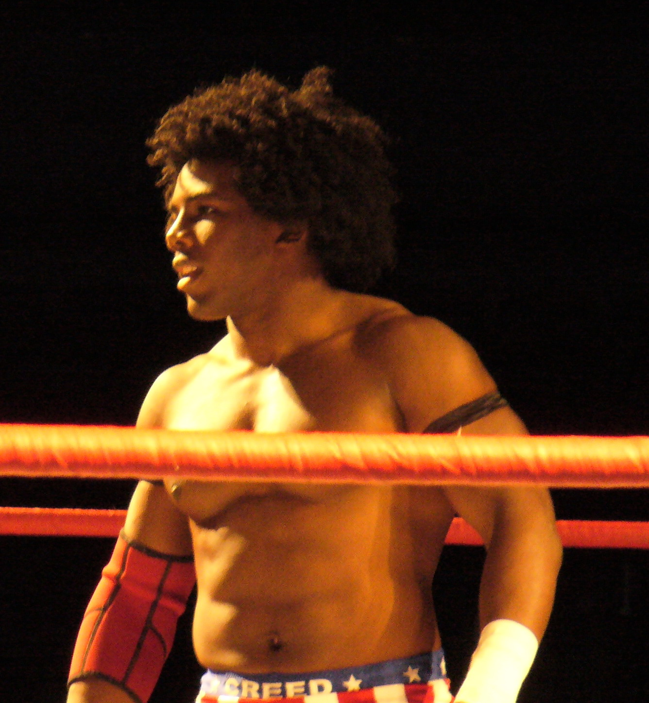 Professional wrestler Consequences Creed